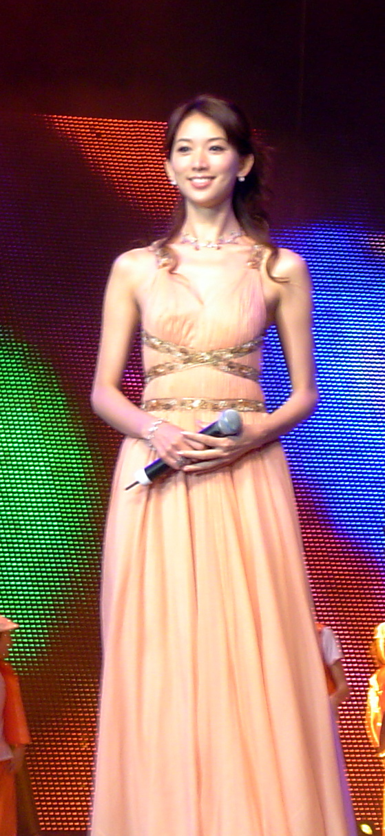 Lin Chi-ling at the Chinese Festival Show (上海电视节) in 2006